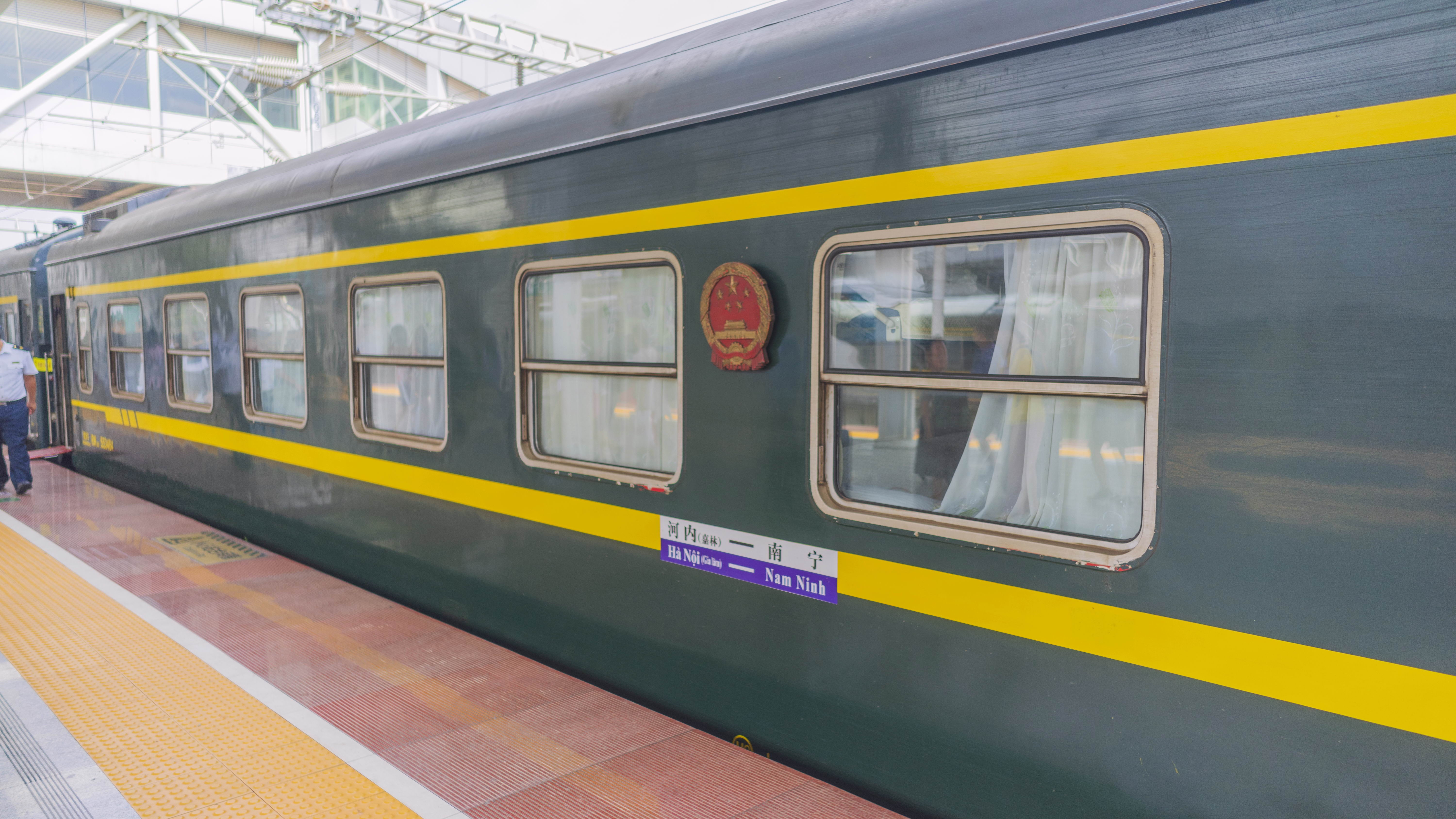 Nanning - Gia Lam, Hanoi